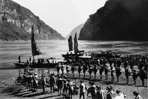 Chinese Army fought at West Hupei to protect their motherland in WWII.